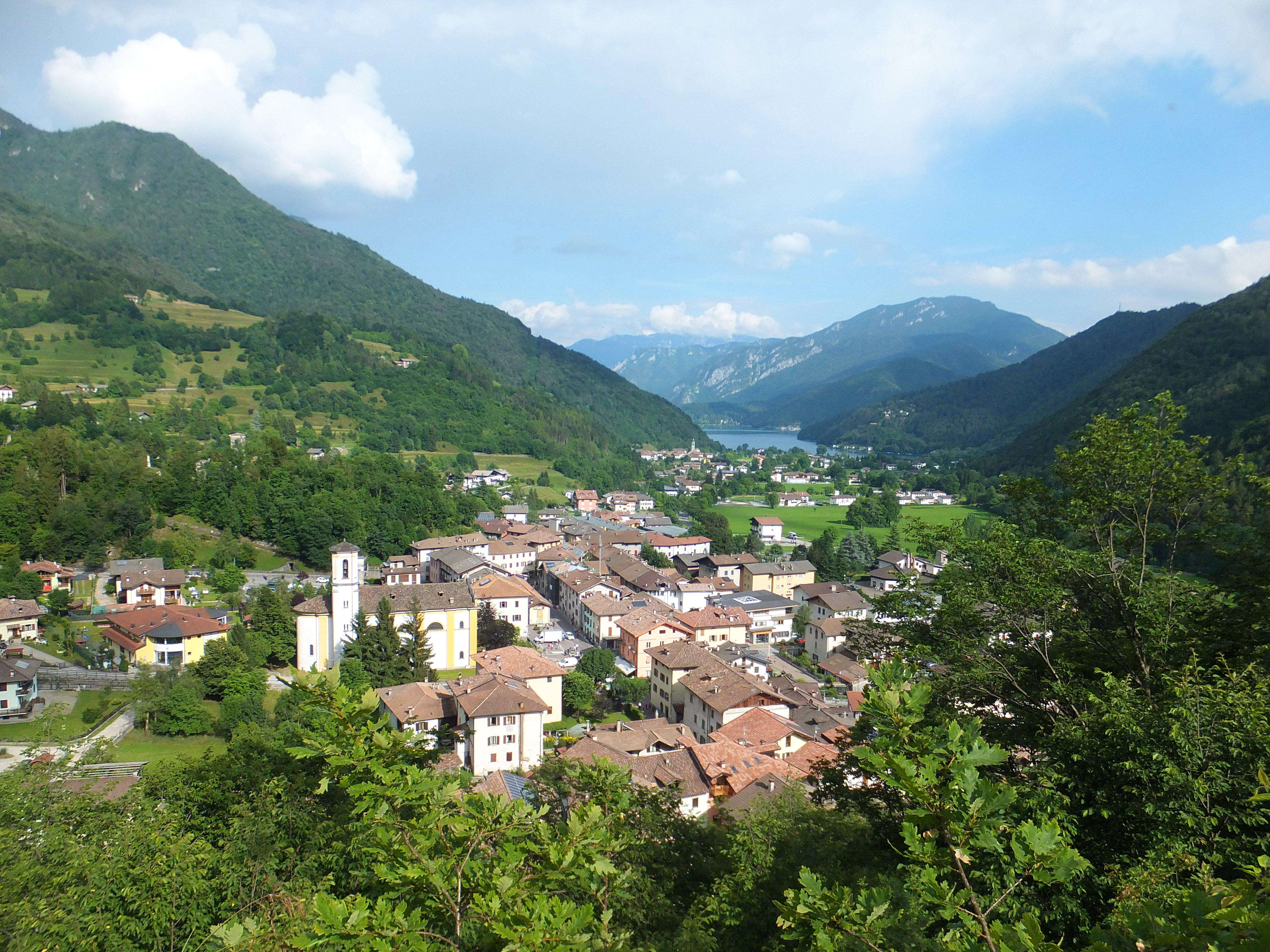 Bezzecca (in the front) and Pieve di Ledro (in the background) from the statue of Madonna above Bezzecca.